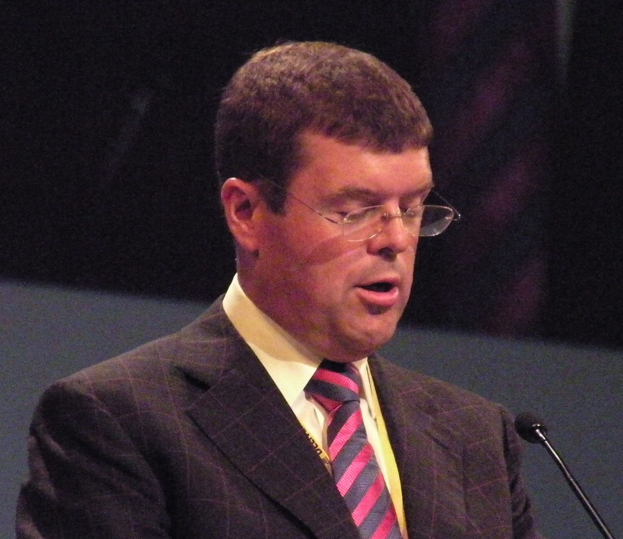 Paul Burstow MP addressing a Liberal Democrat conference in the Bournemouth International Centre